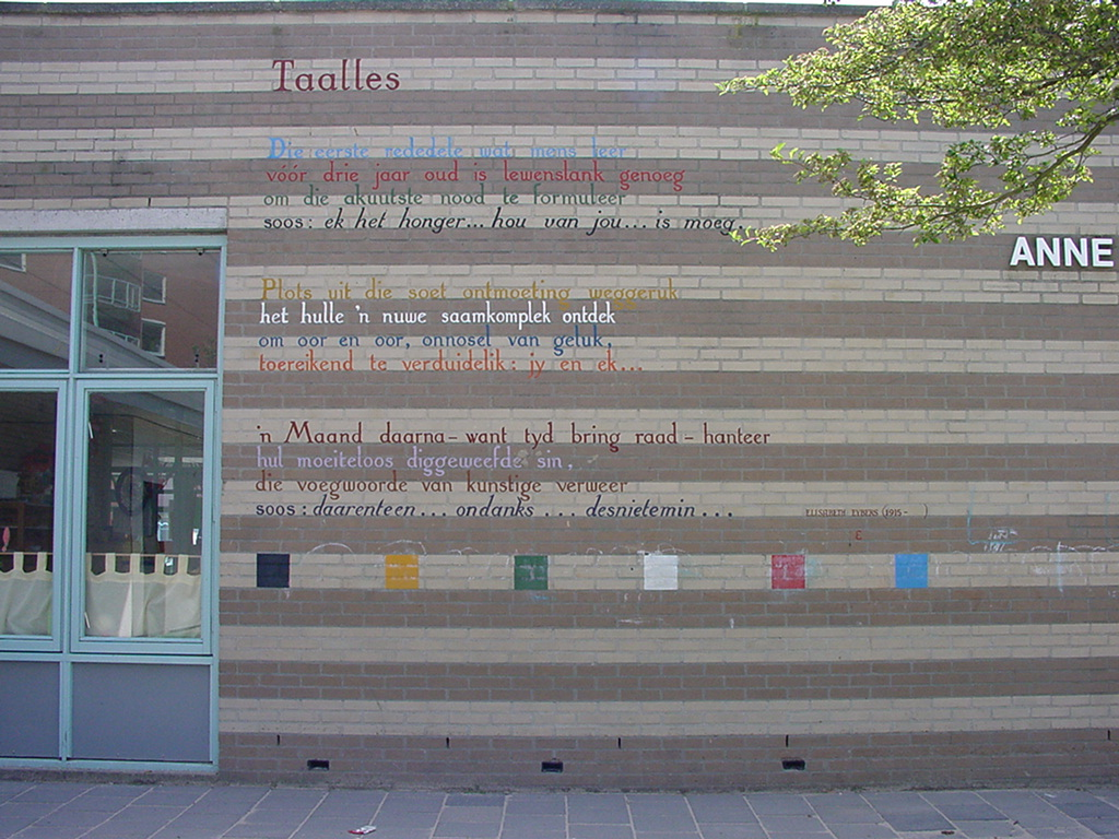 Wallpoem in de city of Leiden in the Netherlands.